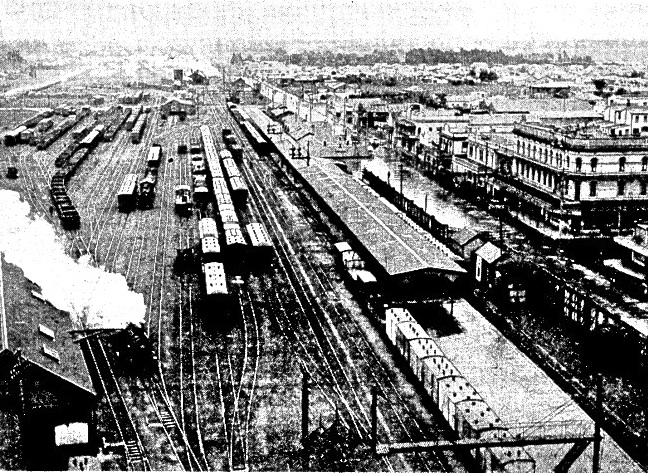 Railway Station and Yards, Palmerston North, (Evening Post, 31 October 1934). Alexander Turnbull Library, Wellington, New Zealand.